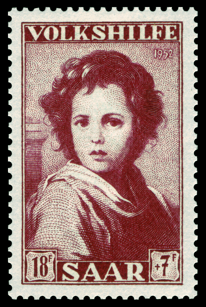 Volkshilfe, additional social fees